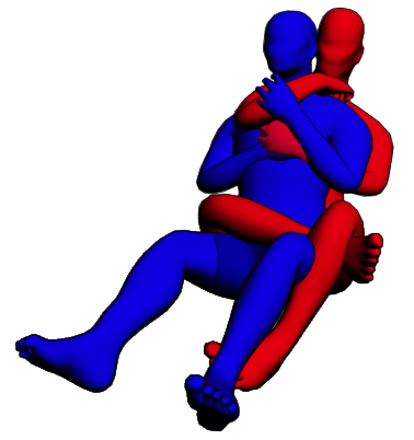 Martial Arts Technique diagram depicting two fighters grappling. Particularly showing the Body triangle(also known as the figure-four body lock or seatbelt)